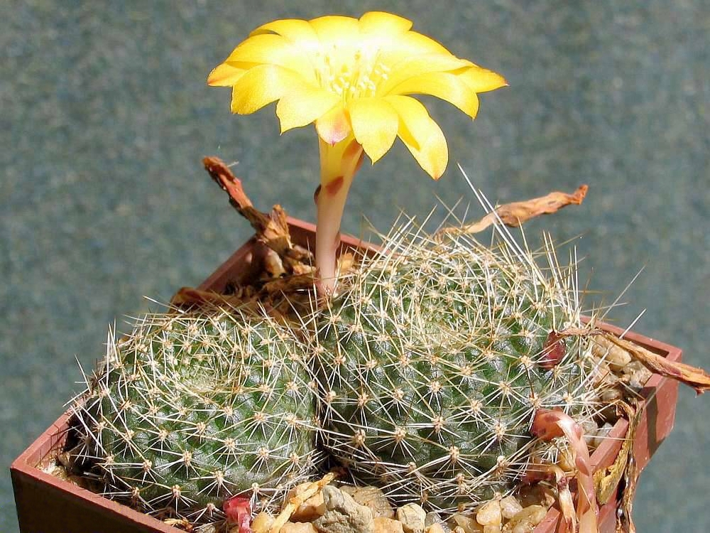 Rebutia marsoneri Werd. f. marsoneri - cultivated plant from own collection.